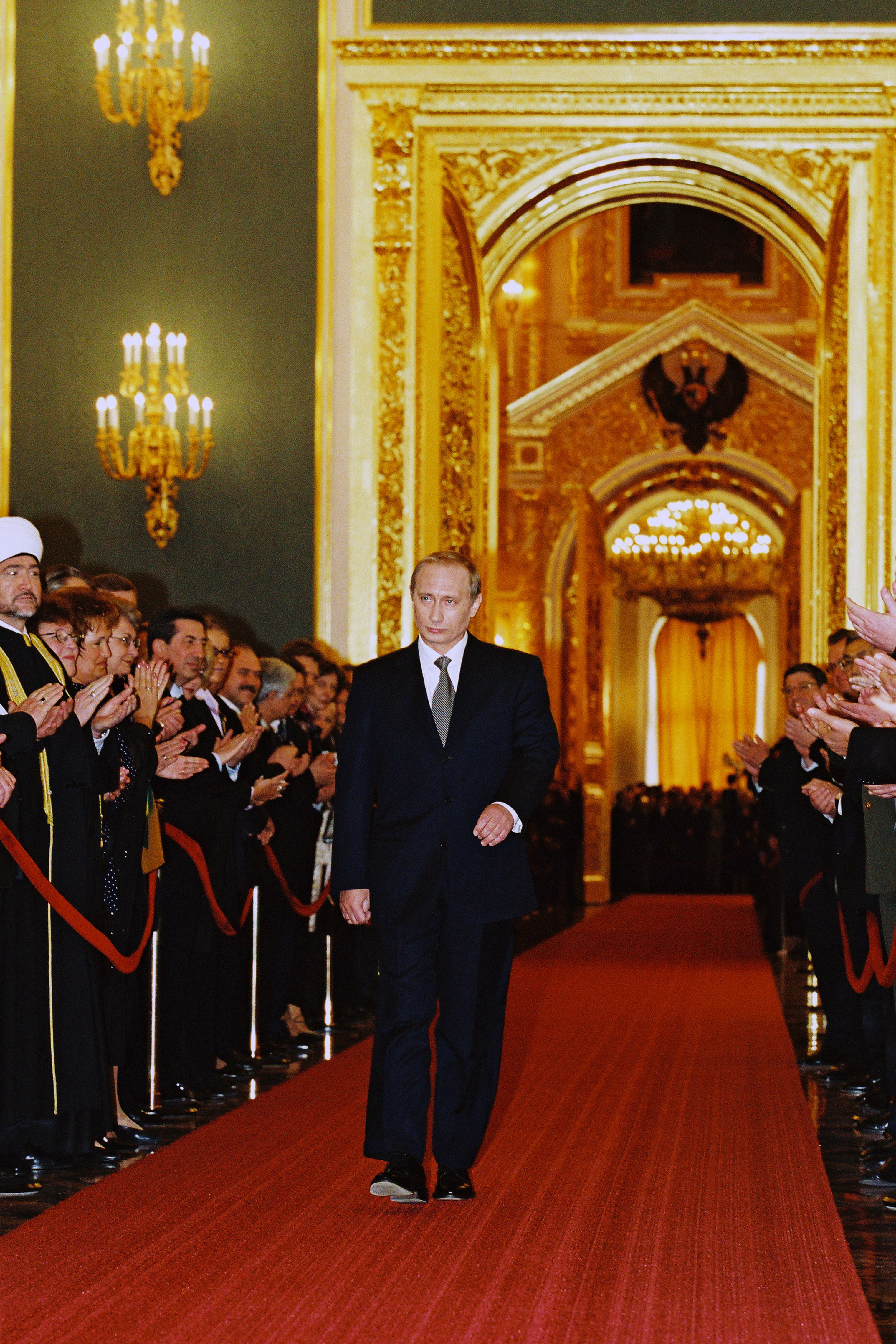 ST ANDREW HALL IN THE GRAND KREMLIN PALACE, MOSCOW. The inauguration of President Vladimir Putin.